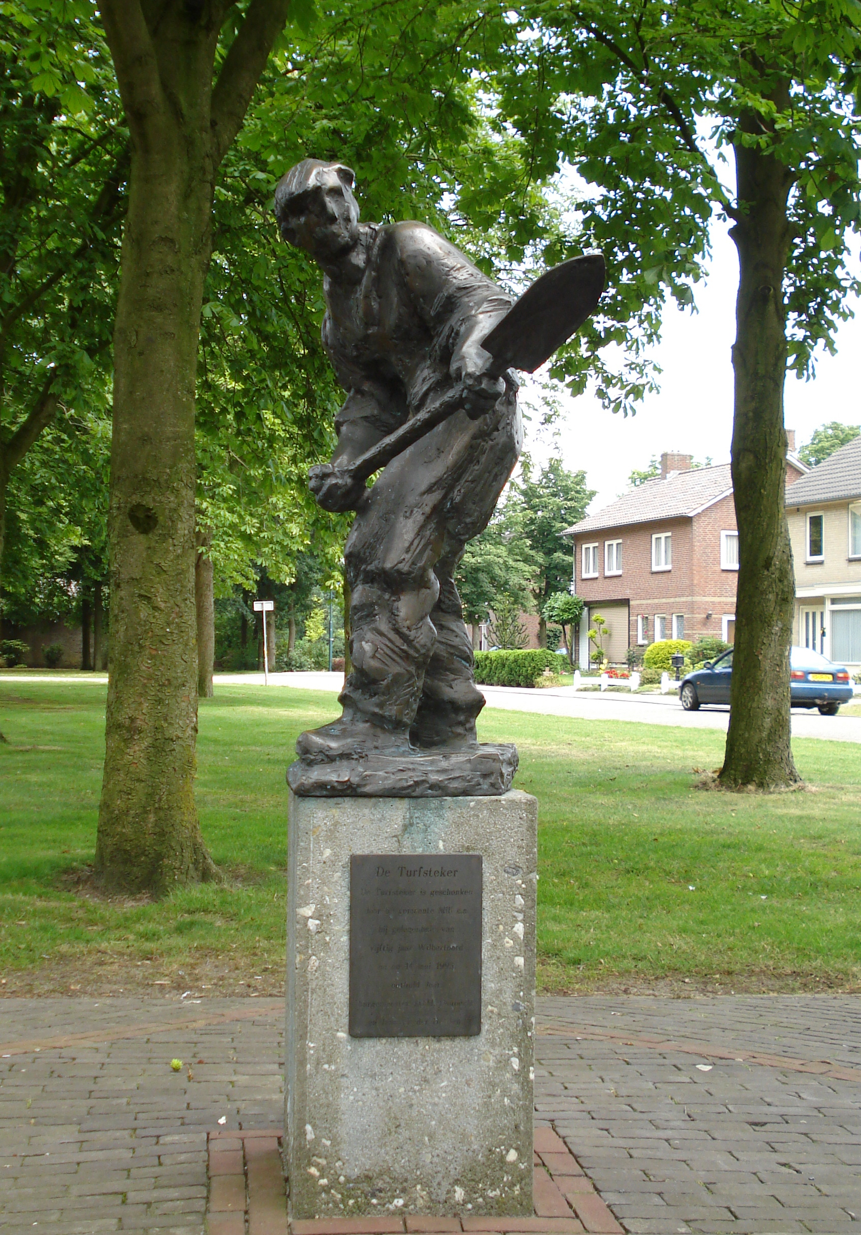 Wilbertoord, De Turfsteker (Le Tourbier). Municipality of Mill en Sint Hubert, North Brabant, the Netherlands